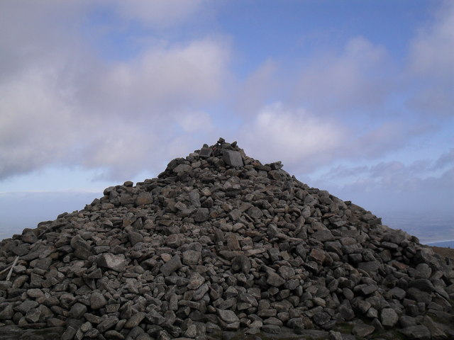 Slieve Donard Summit Cairn This cairn is the highest point in Northern Ireland - at 852 metres (2,795 feet) above Mean Sea Level. There is memorial on top to a mountaineer who was killed by a lightning strike in 2006.